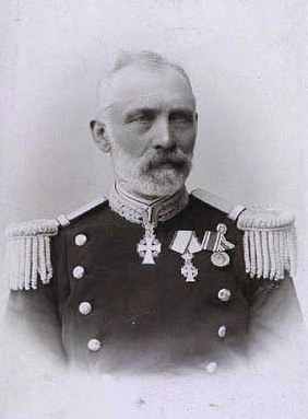 Rasmus Balslev Leth (1839-1920), Danish forester and army officer